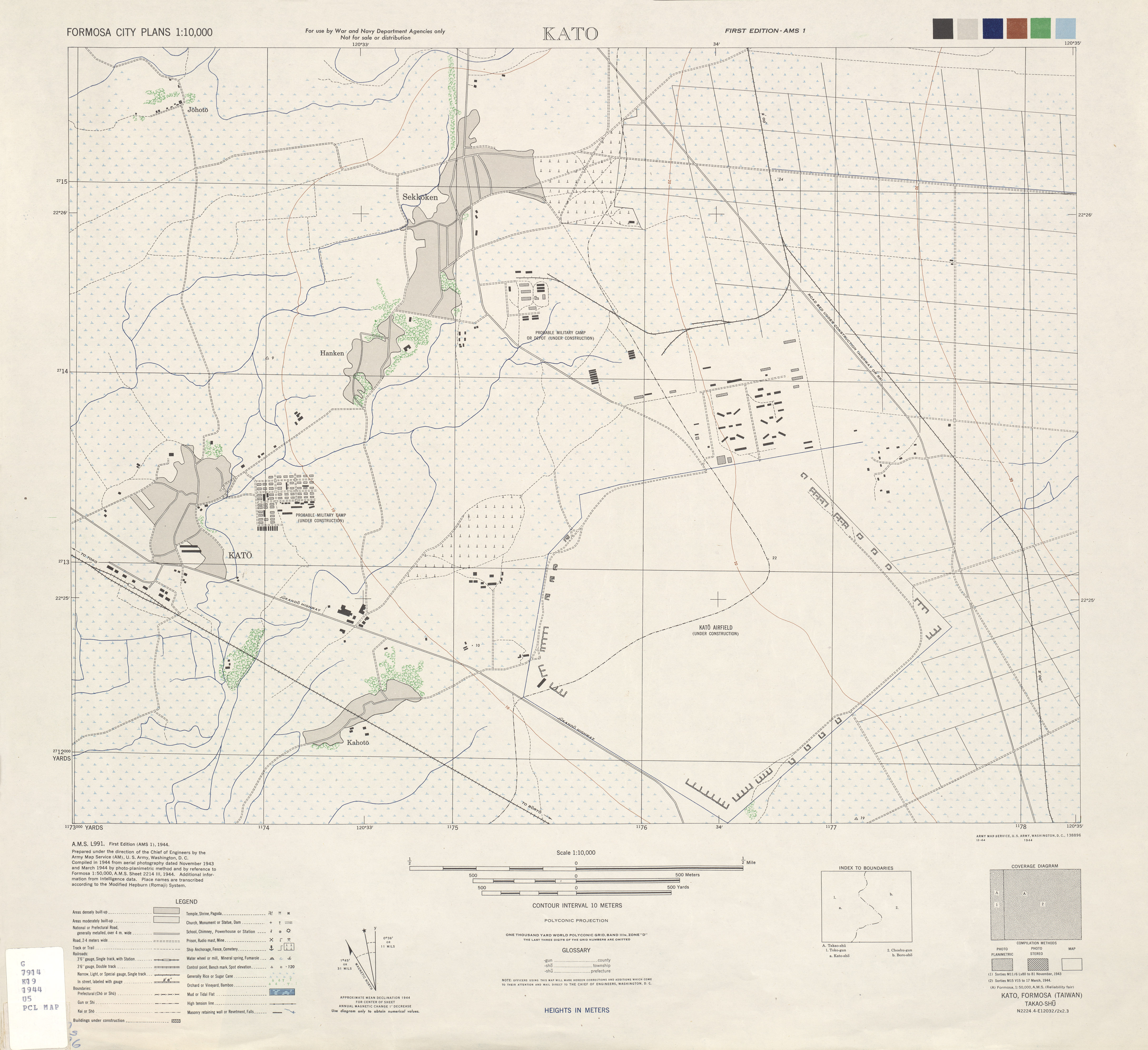 Kato 1:10,000 1944